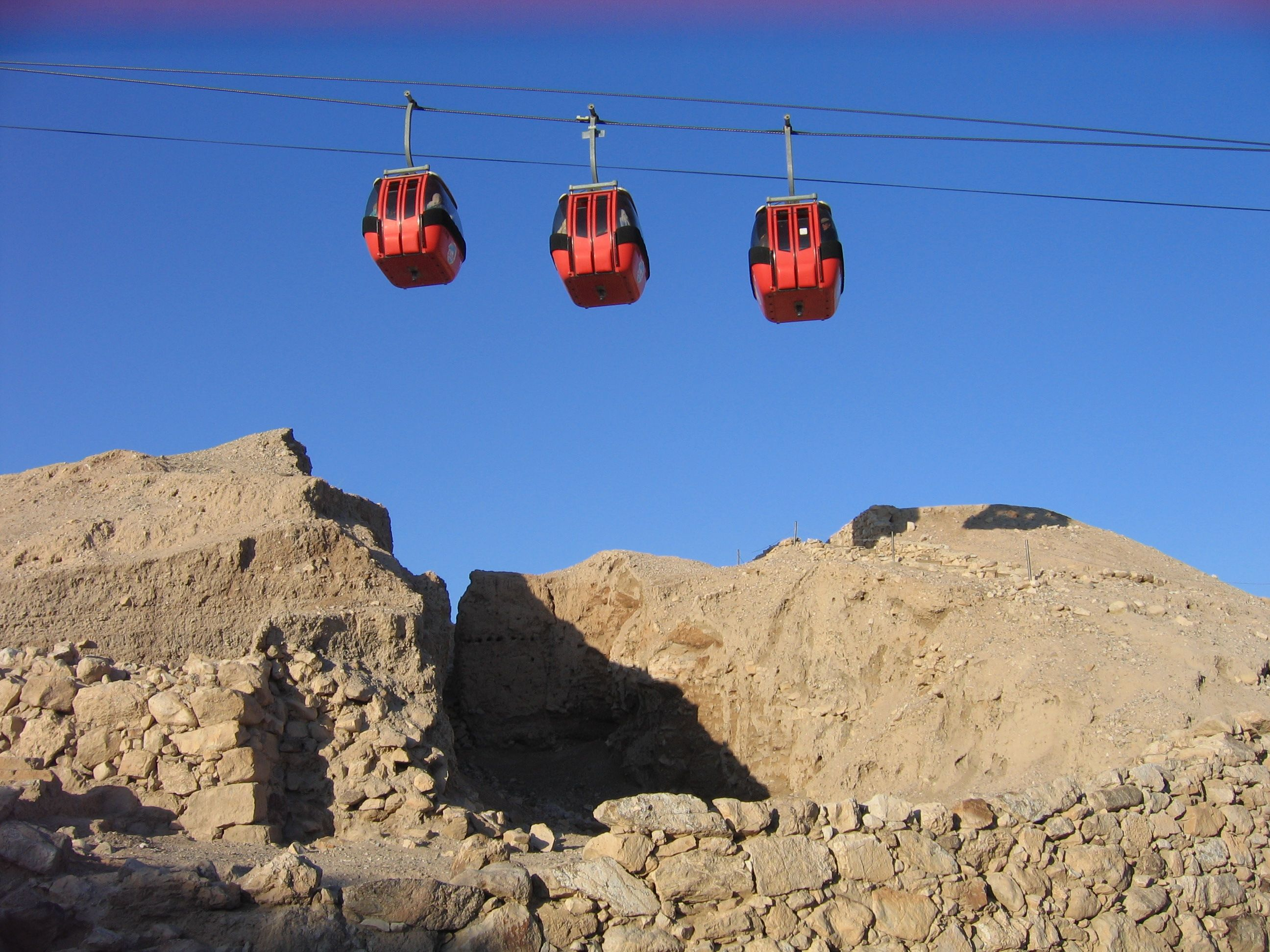 Cable car to Monastry of Temptation, Jericho, over archaeologigcal site of Tell es-Sultan